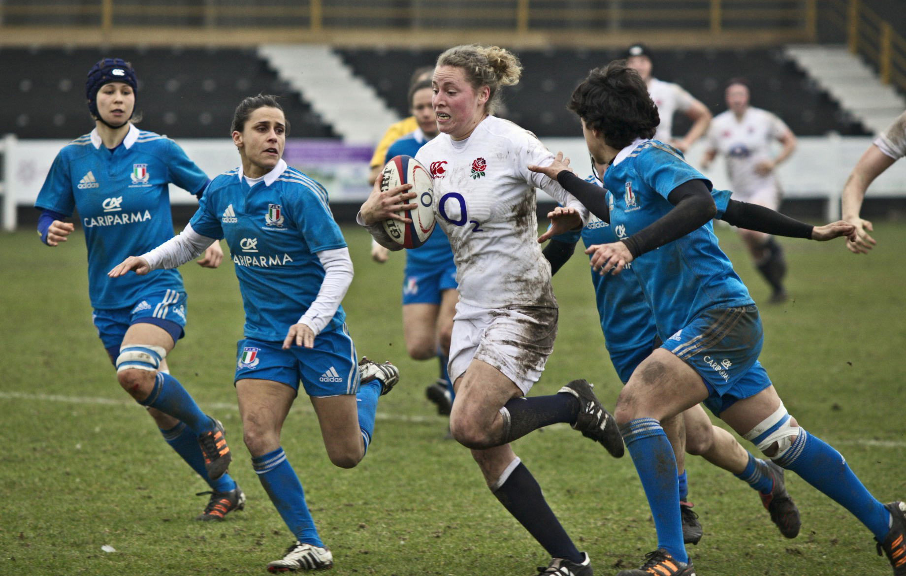 England 34 : 0 Italy England Women v Italy Women (RBS Six Nations). From left to right: the Italian Cristina Molic, Sara Barattin, the Englishwoman Lydia Thompson??, the Italian Manuela Furlan